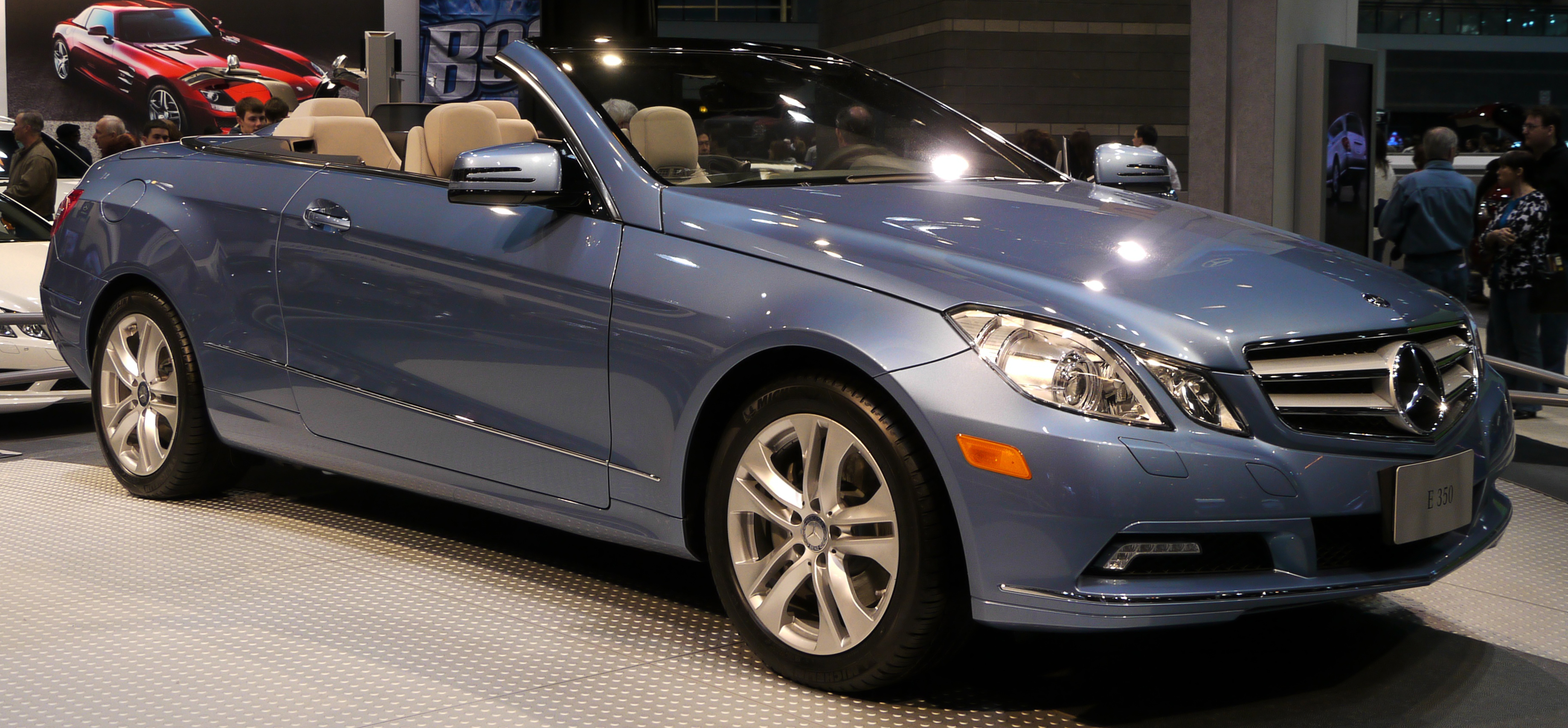 2011 Mercedes E350 Convertible at Chicago Auto Show 2010.